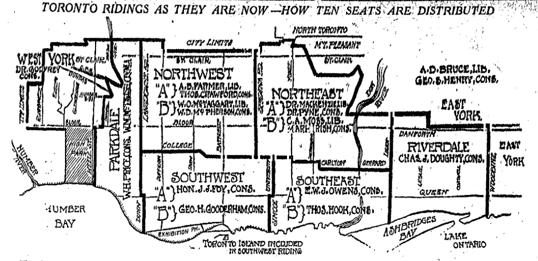 Provincial riding boundaries in Toronto, Ontario as of June 1914